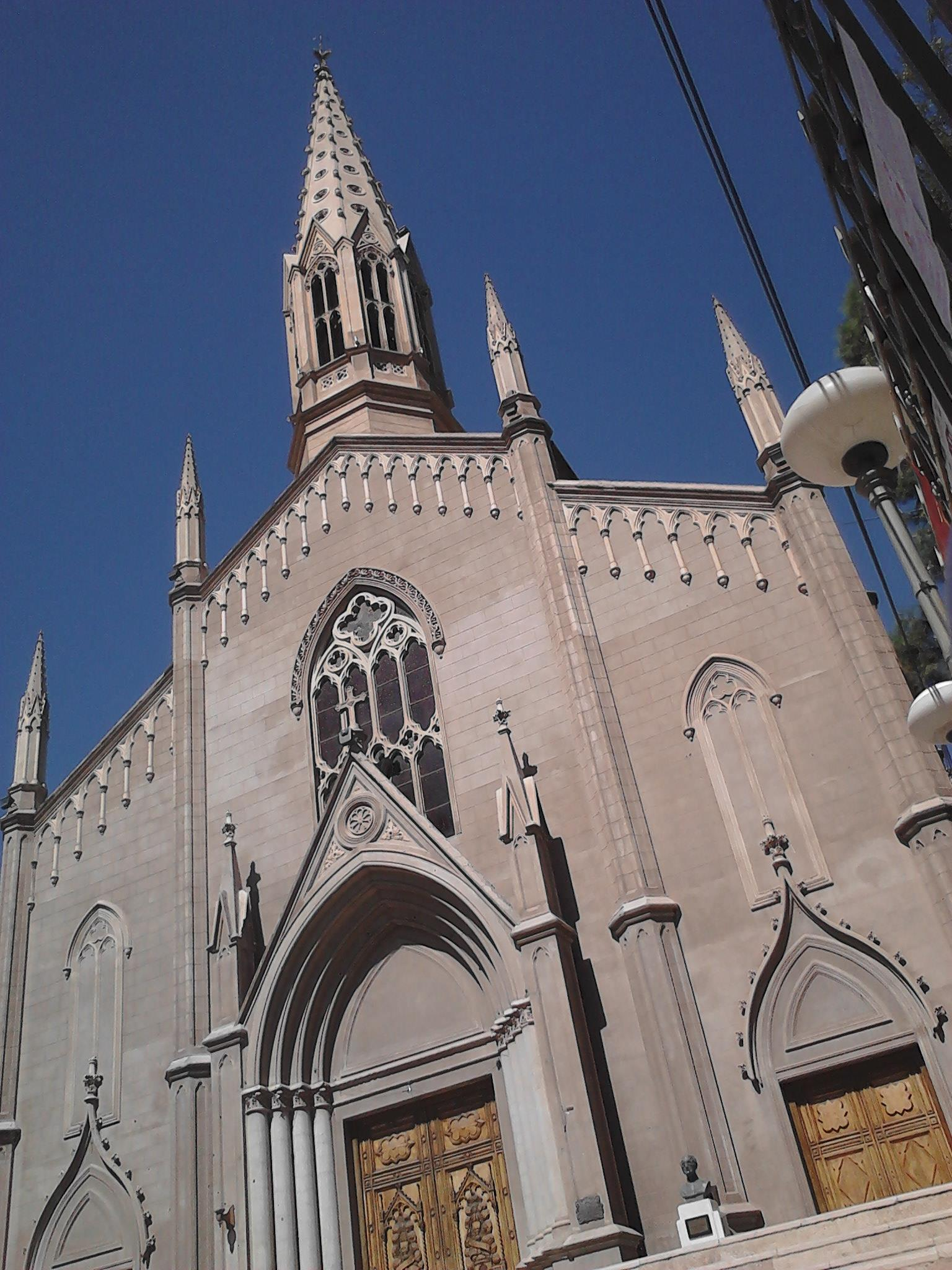 La única parroquia de estilo neo gótico de la provincia de Mendoza es la San Vicente Ferrer.